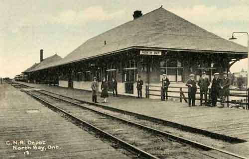 Photograph of the Canadian National Railway station in North Bay, Ontario, Canada, taken circa 1925.